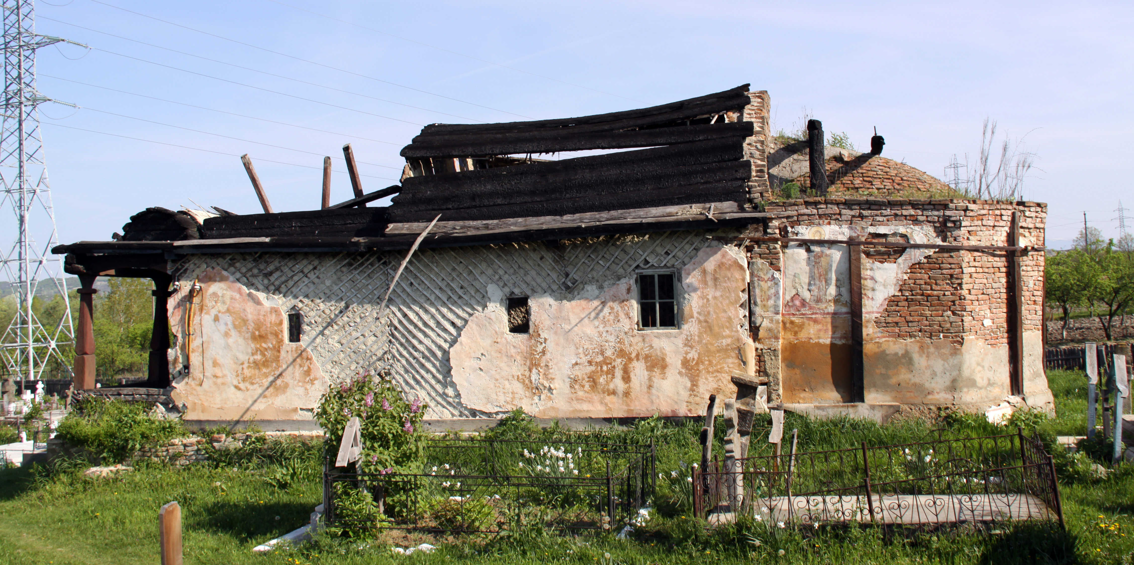 Sineşti, Vâlcea county, România: wooden church, South side.